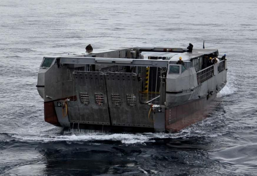 French Landing Catamaran EDA-R